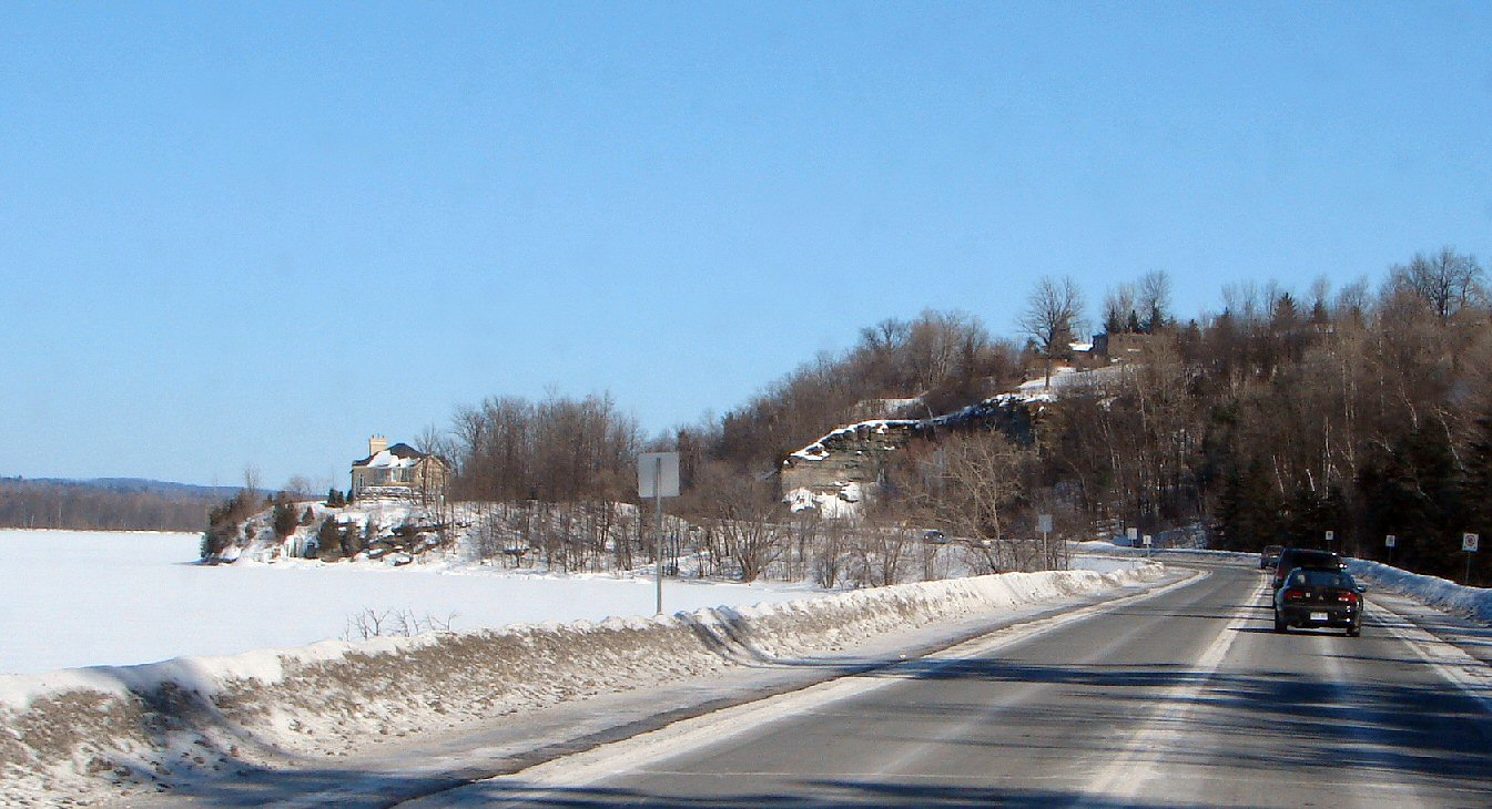 Highway 174 along the Ottawa River between Orleans and Cumberland (City of Ottawa), Ontario, Canada